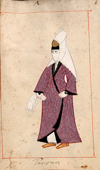 Pictures from the Ralamb Costume Book, 1657